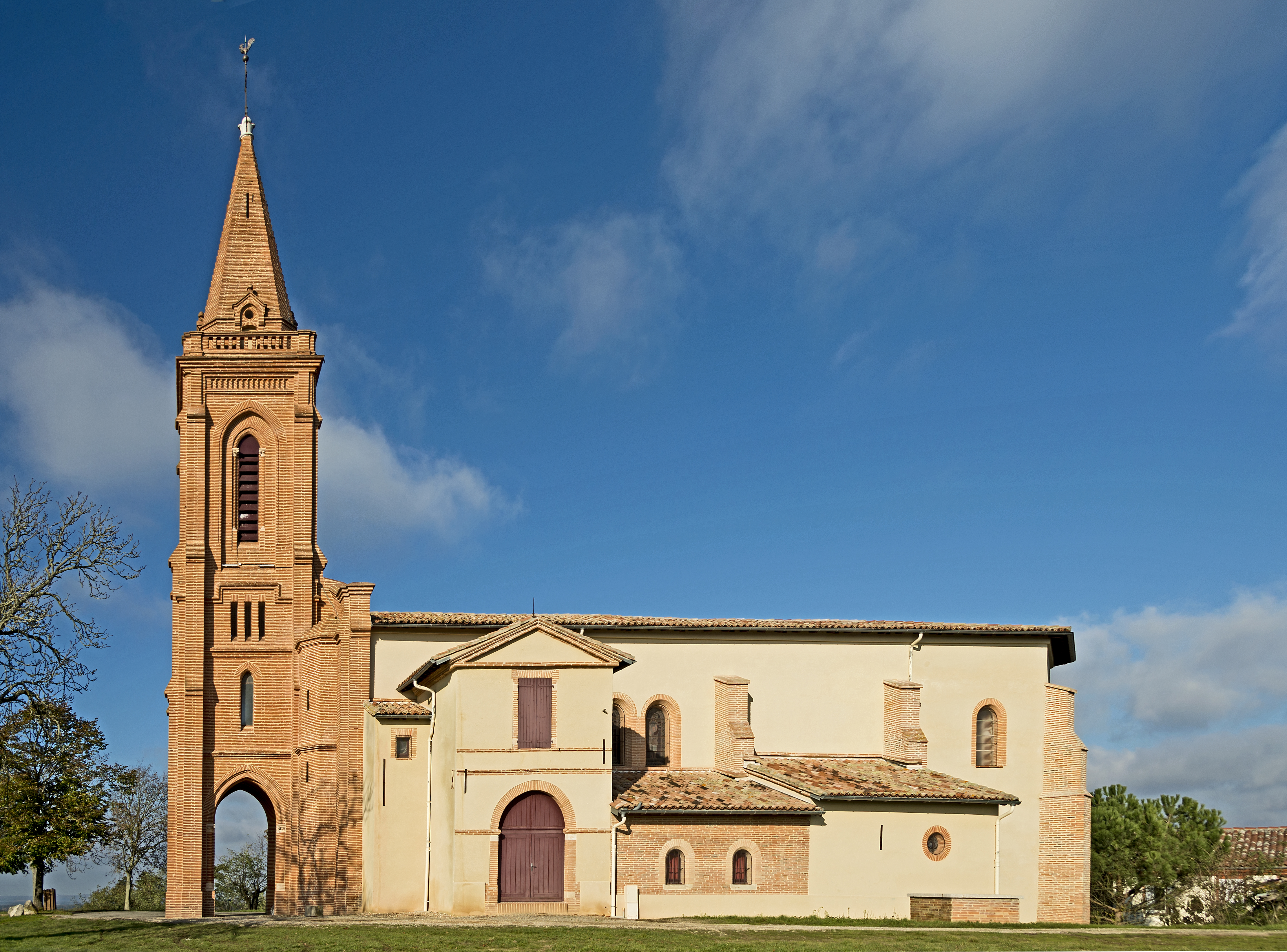 The Church saint-Sernin - Vacquiers, Haute-Garonne, France